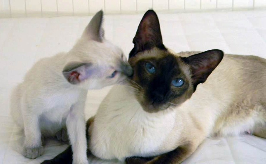 This is a Thai Old Style Siamese cat belonging from PHAITHAI Cattery